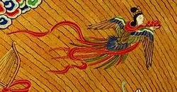 Karyōbinga from the Amidakyōhensō (阿弥陀経変相)